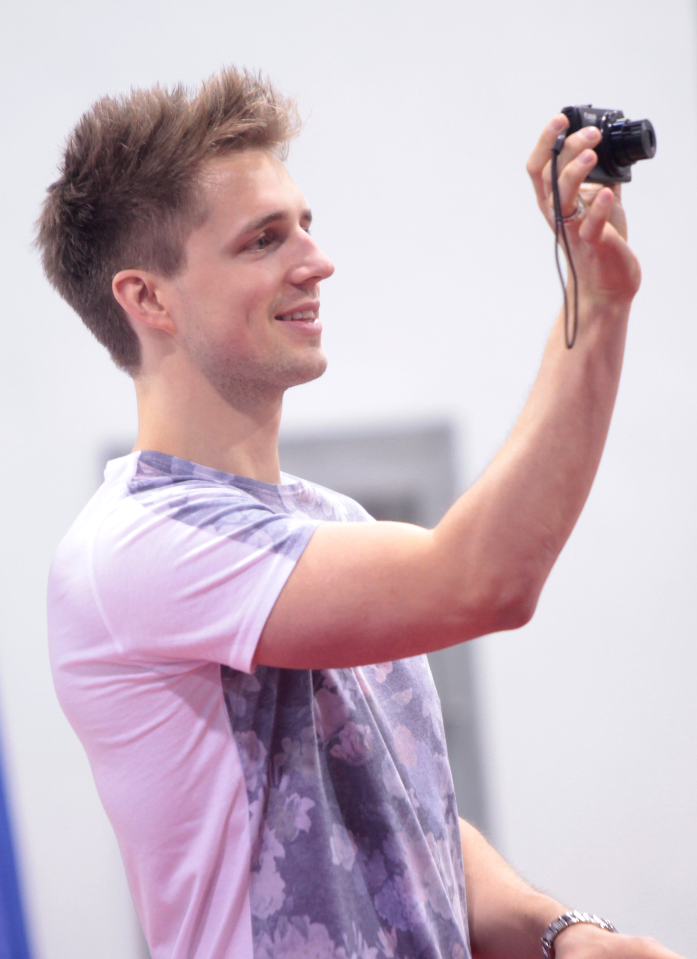 Marcus Butler at Vidcon 2014.